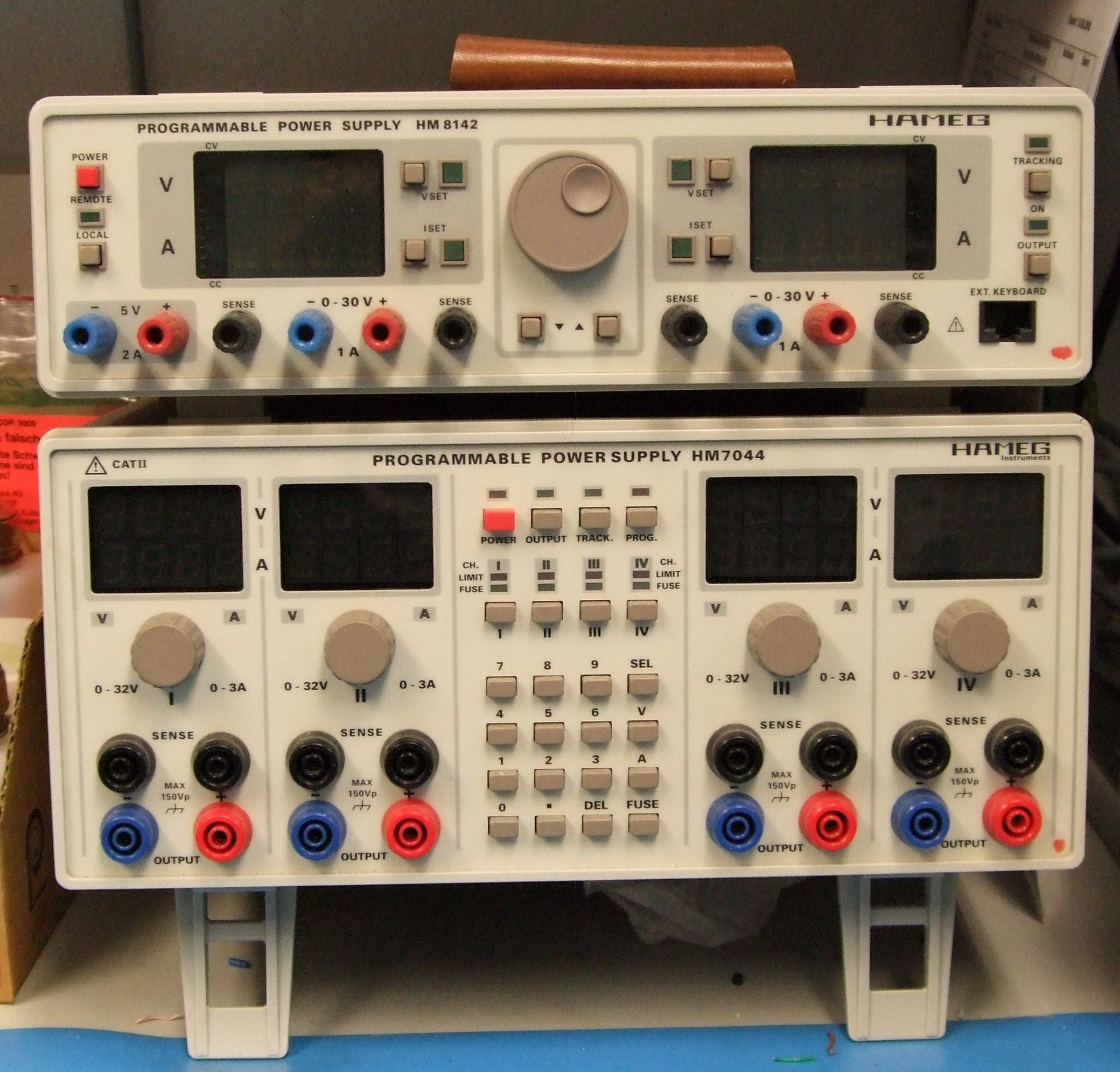 Two programmable power supplies by Hameg Zwei programmierbare Labornetzteile von Hameg